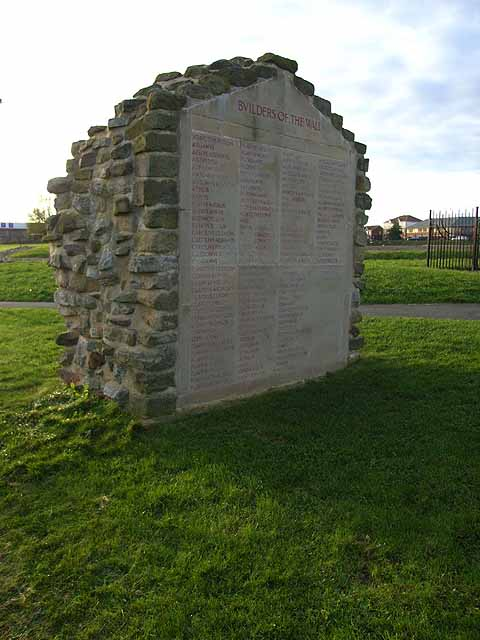 "Builders of the Wall" At the eastern end of Hadrian's Wall and of Hadrians Wall National Trail which runs 135 km from Bowness-on-Solway to Wallsend this monument within the grounds of the Segedunum Museum commemorates the builders of the Wall